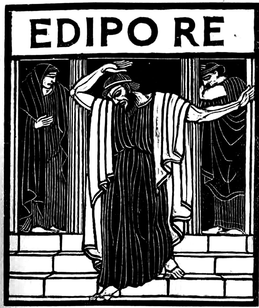 Images from "Edipo re, Edipo a Colono, Antigone", Italian translation by Ettore Romagnoli of some tragedies by Sophocles